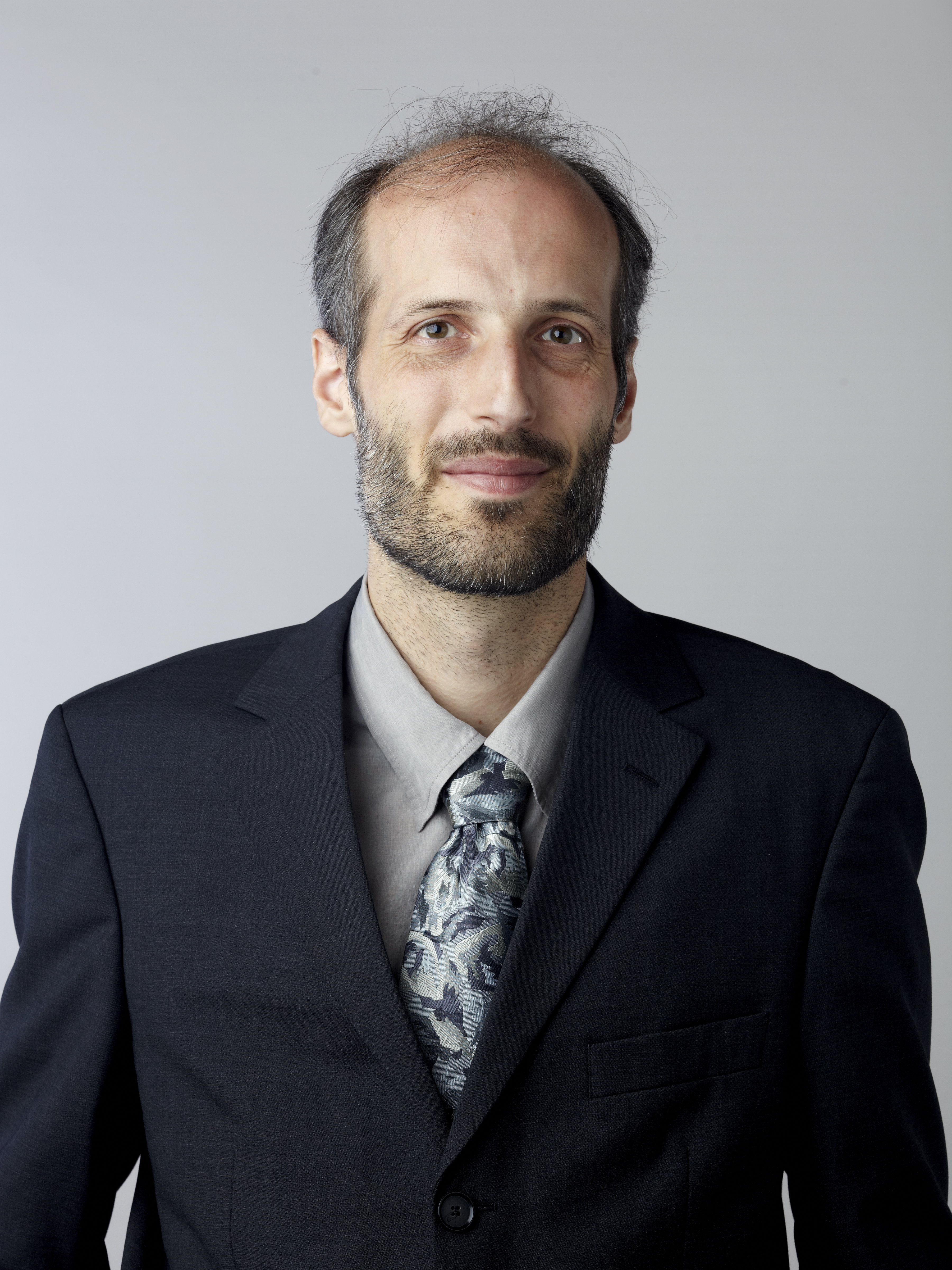 Professor Martin Hairer FRS, Royal Society Fellow elected 2014 Attribution: The Royal Society